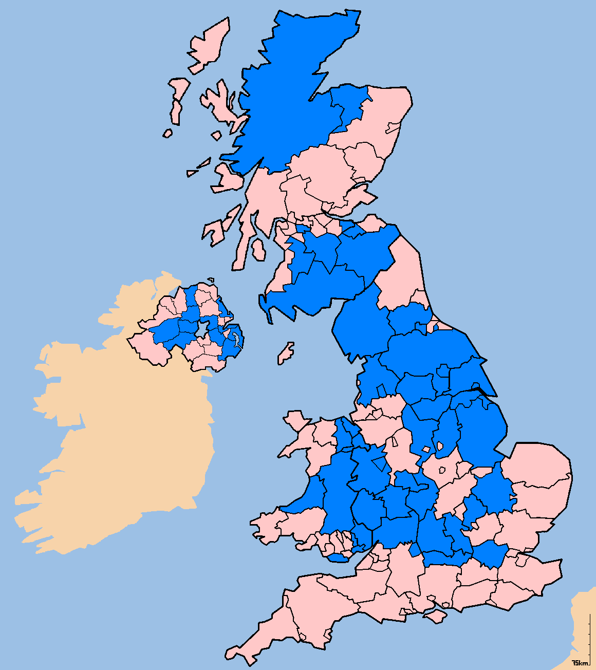 This image indicates in blue the Metropolitan and non-metropolitan counties of England, Districts of Northern Ireland, Subdivisions of Scotland and Administrative divisions of Wales affected by flooding on/by July 24th 2007. Every effort has been made to reduce error, and I apologise for any errors/omissions. Some areas with only minor damage have been omitted.To forestall criticism, citations for each and every one of these areas can be found on . The light blue colour was chosen because of its natural association with water, and pink as its opposite on the colour wheel. No other meaning is implied or should be inferred. The camel colored area to the left is the Republic of Ireland, to the right is the French Republic. The choice of camel and light blue for sea areas is, to the best of my belief, uncontroversial. Some islands in the archipelago may have been omitted through pressure of time, and I apologise for those omissions.